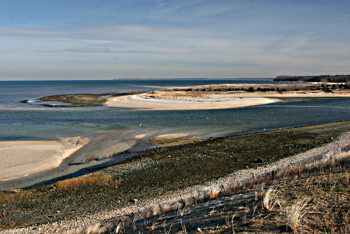 This is an image of the mouth of the Nissequogue River where it meets the Long Island Sound. It was created by Robert Swanson, Username = ryssby